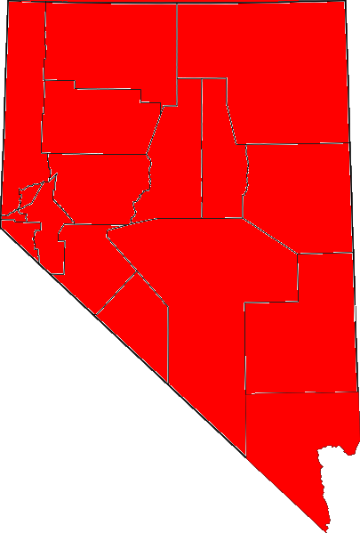 2006 Nevada Senate results by county